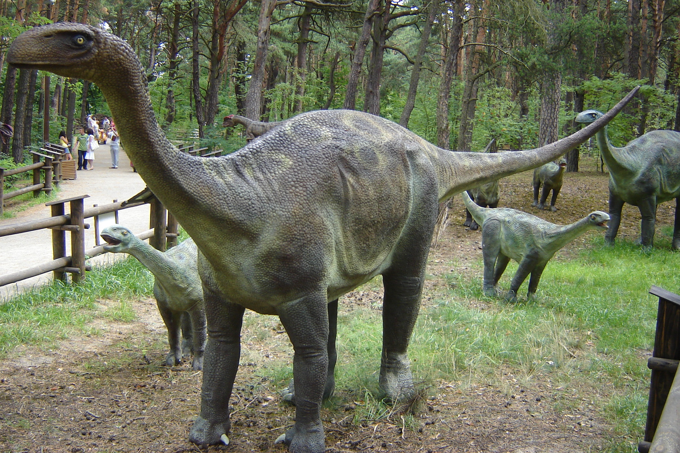 Model of vulcanodon in JuraPark, Solec Kujawski, Poland